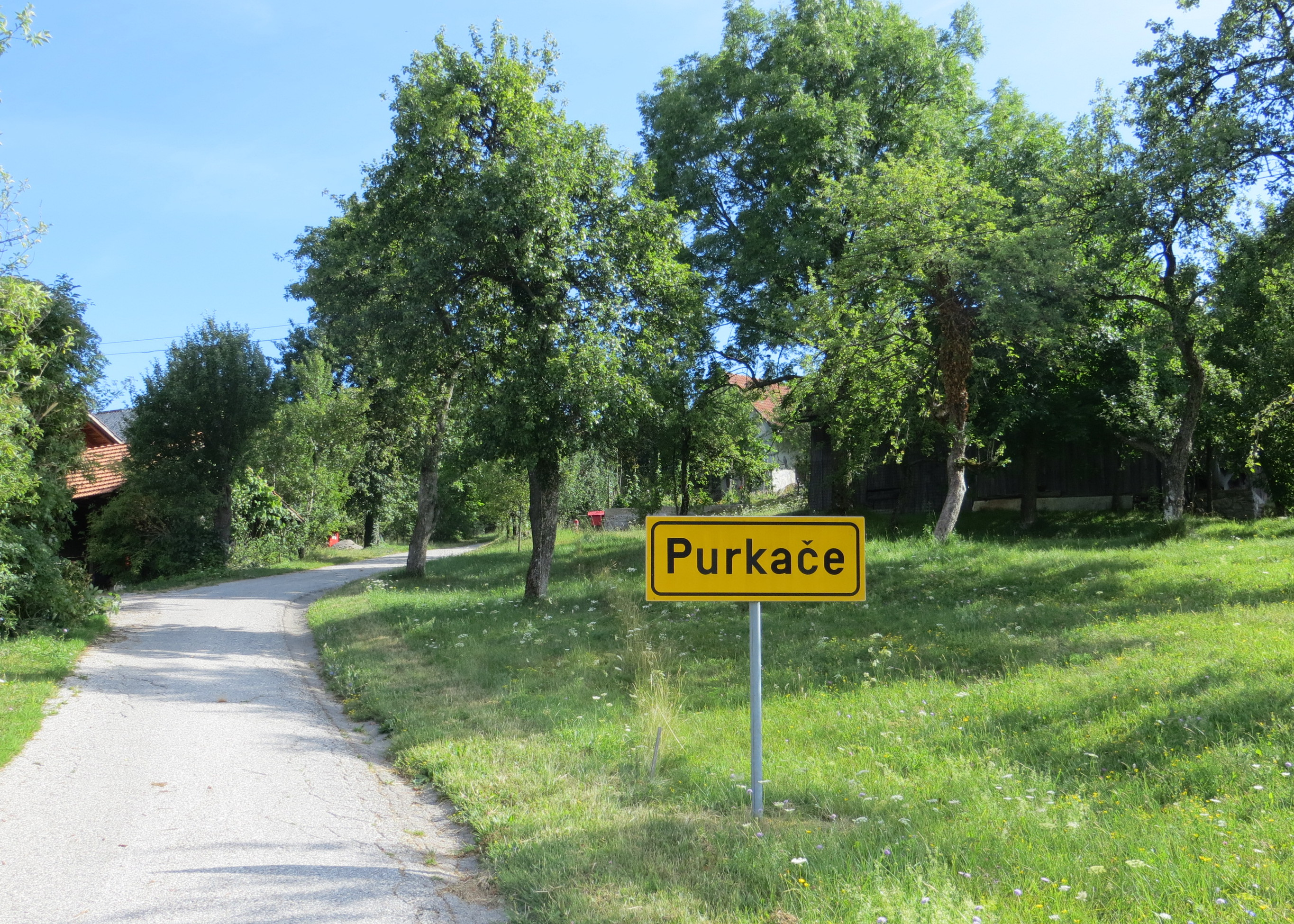 Purkače, Municipality of Velike Lašče, Slovenia